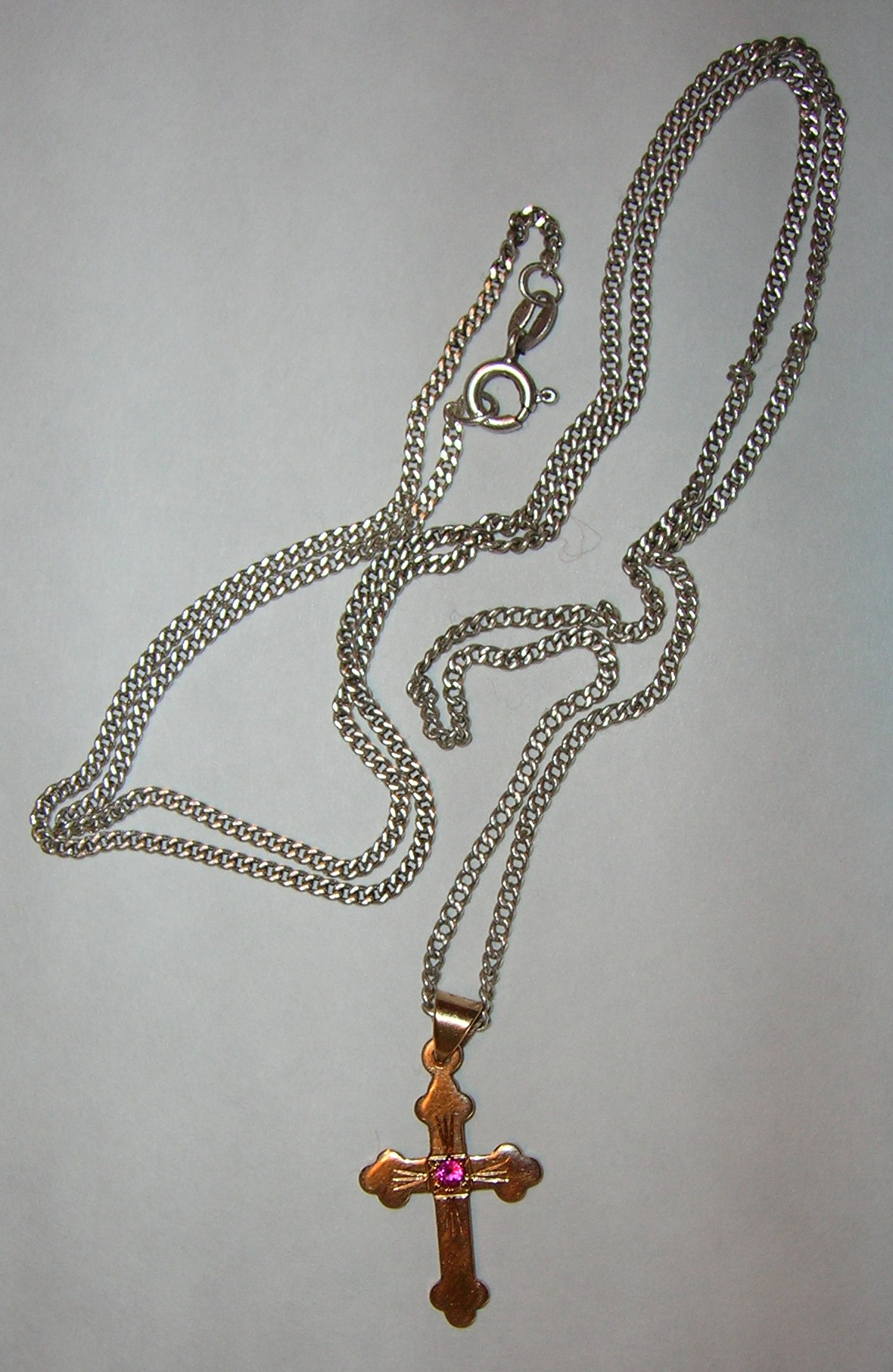 Rose cross jewellery in gold with a red rubin in the centre, bought in A.M.O.R.C.s shop Espace in Onsala, Sweden. Snapshot taken on April 2, 2006, with a NIKON Coolpix 5600 5,1 Megapixel digital camera. I, Frater Dignus, gives the permission to use this image for any purpose whatever, as public domain.